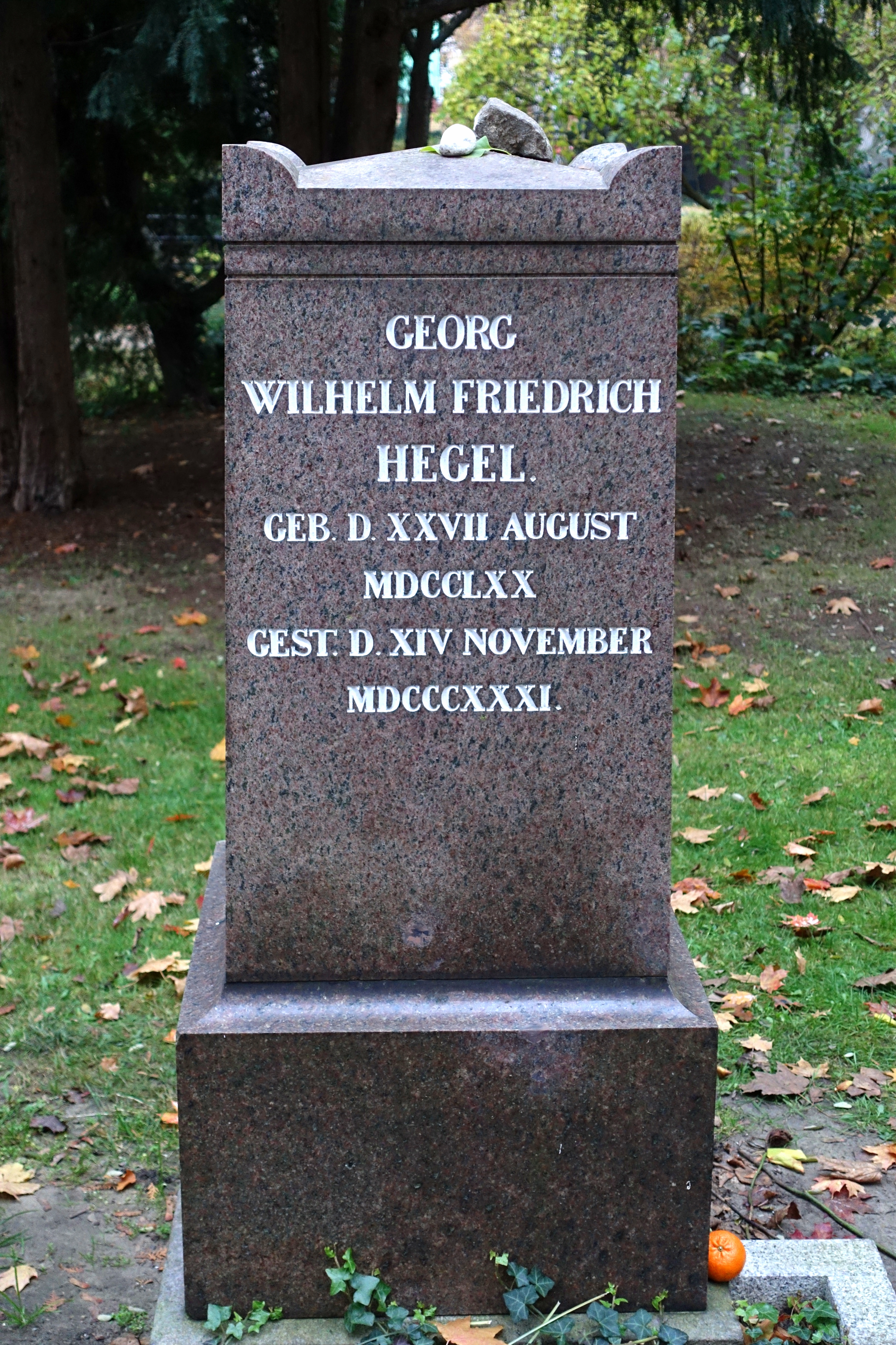 Grave of Georg Wilhelm Friedrich Hegel - Dorotheenstädtischer Friedhof - Berlin, Germany.